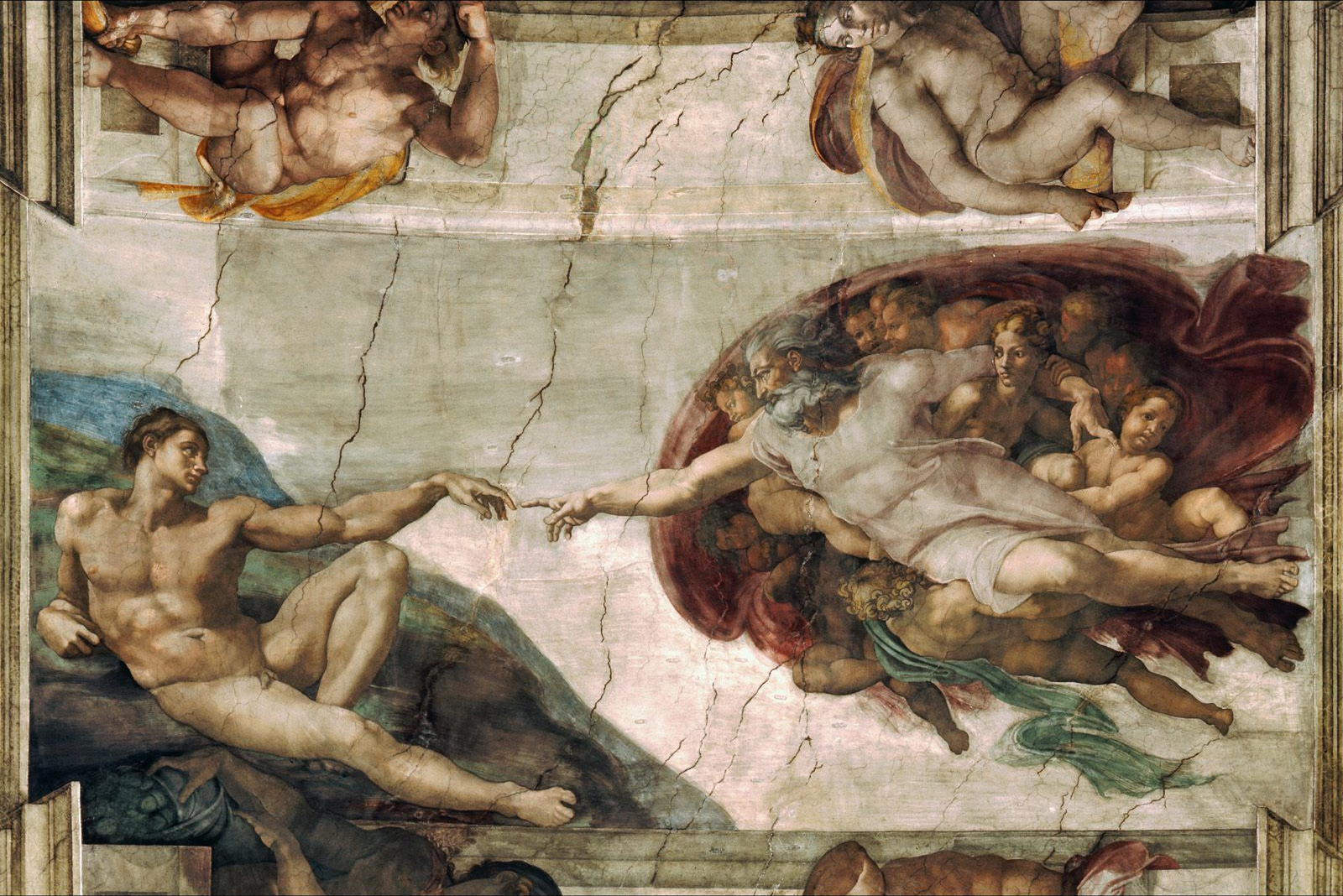 The Creation of Adam is a fresco painted by Michelangelo, the work started at 1508 and finished 1512, it appears on the ceiling of the Sistine Chapel. It illustrates the Biblical story from the Book of Genesis in which God the Father breathes life into Adam, the first man. Chronologically the fourth in the series of panels depicting episodes from Genesis on the Sistine ceiling, it was among the last to be completed.